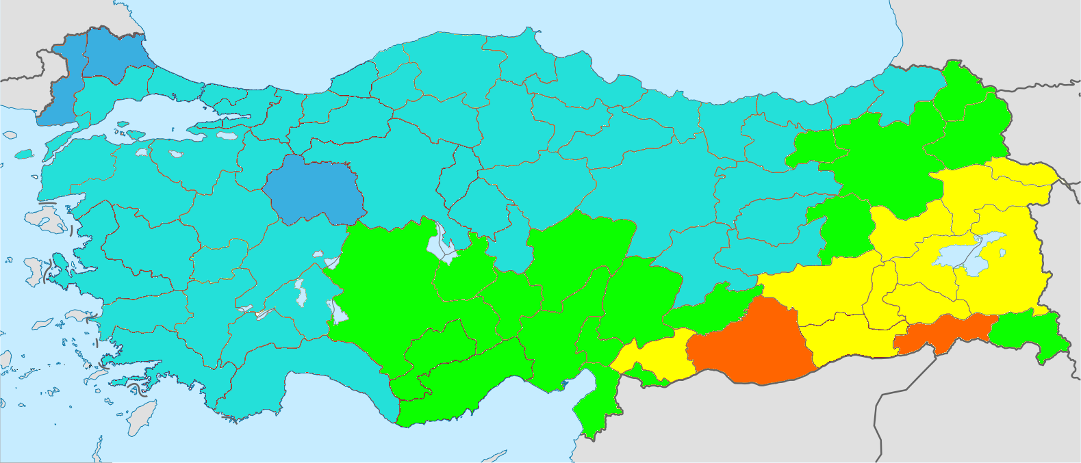 Total fertility rate by province in Turkey (2013). Data is from TurkStat